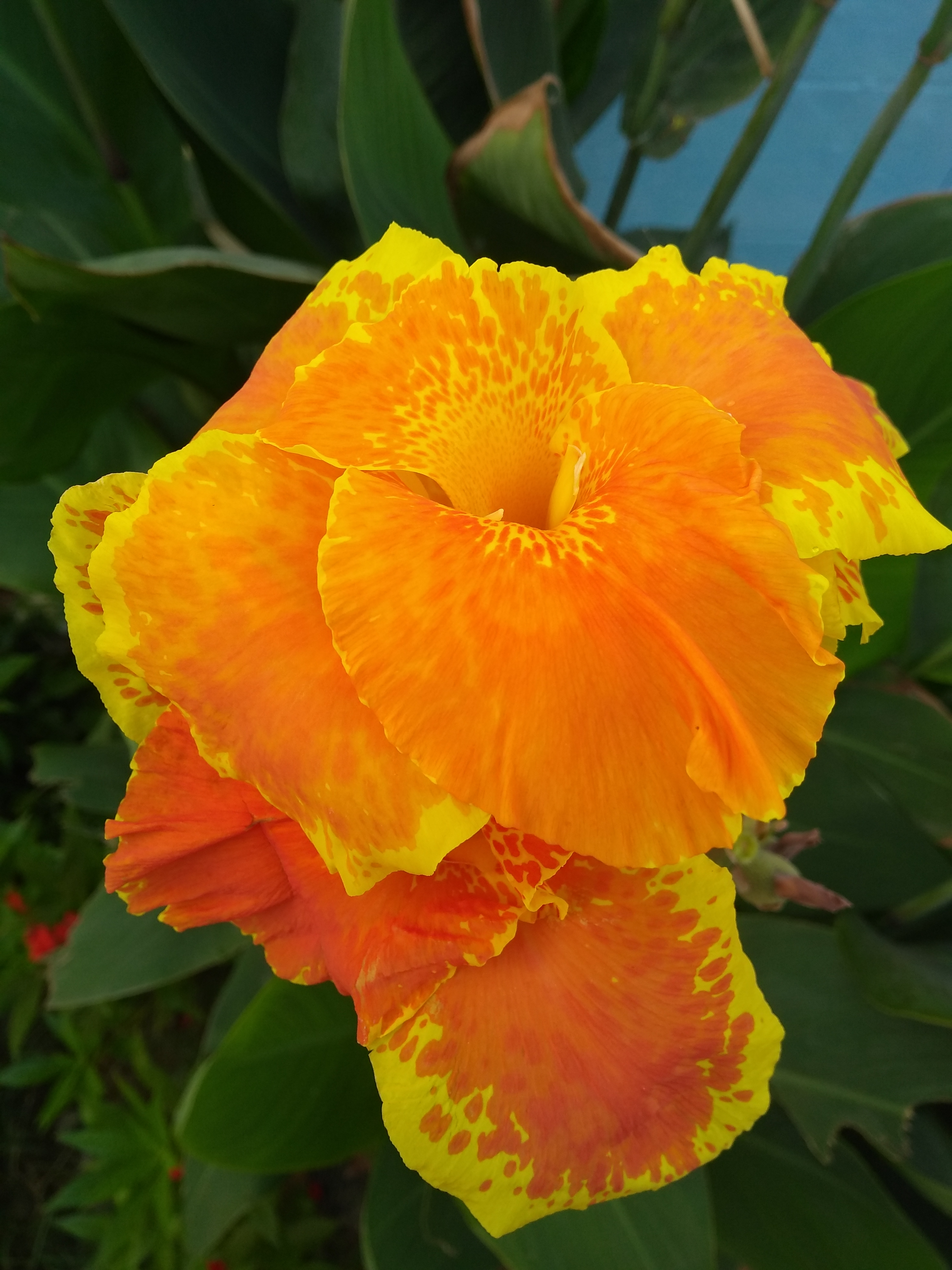 Orange canna lilly